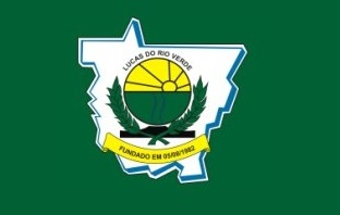 Flag of Lucas do Rio Verde (Mato Grosso) - Copyrited by the brazilian law of Industrial Preperty (Law 9.279/ 14/05/1996)